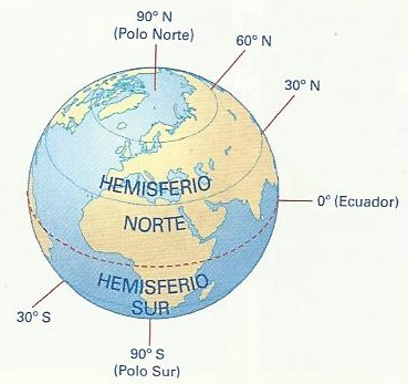 The map of the northern and southern hemispheres , with their respective degrees and names.